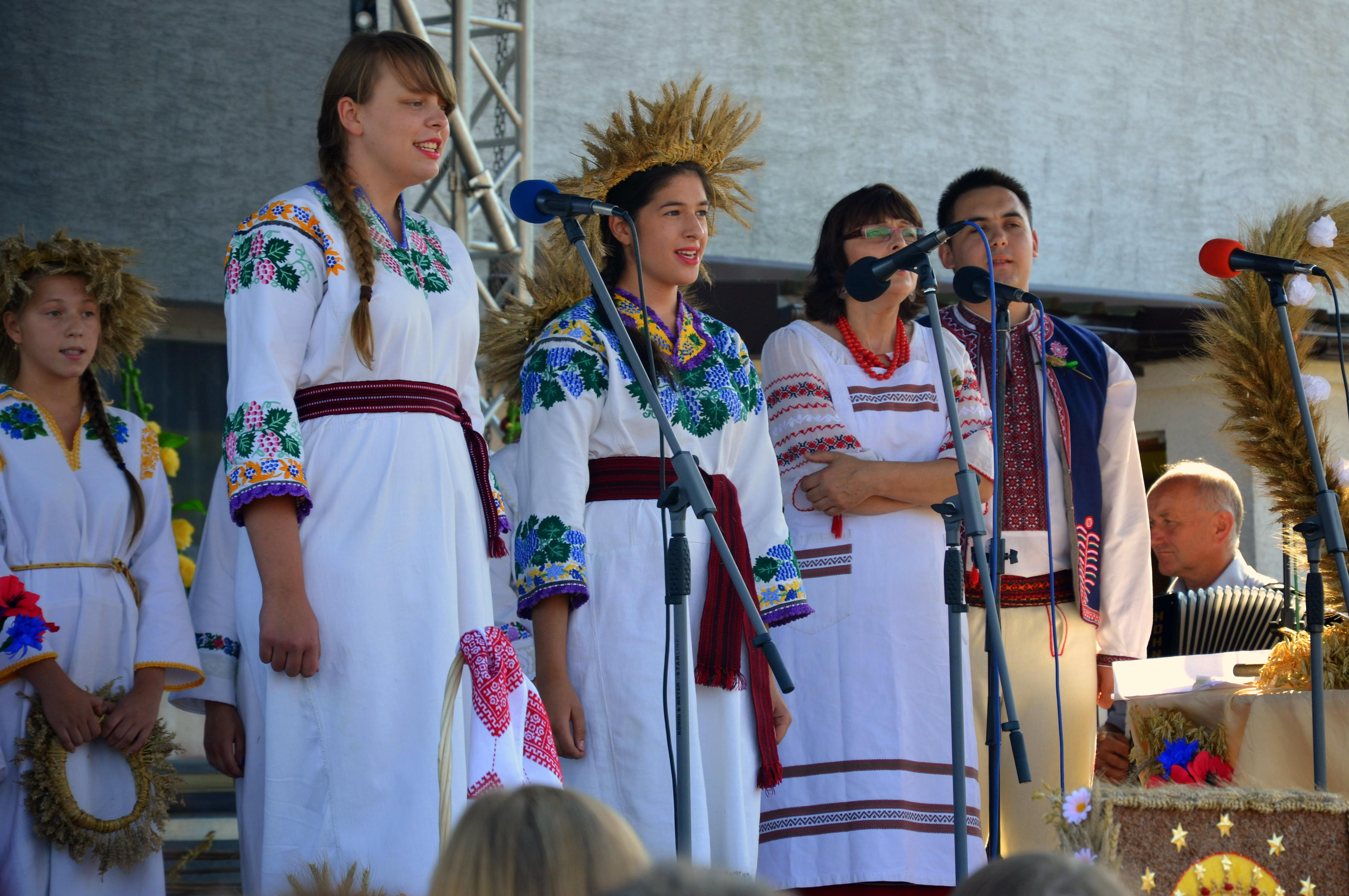 Harvest Thanksgiving 2013 in Mokre